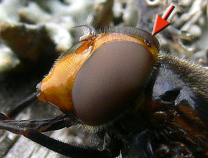 Description: Volucella pellucens is a hover-fly. It occurs in much of Europe, and across Asia to Japan.